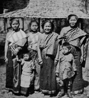 Lao Woman and Children